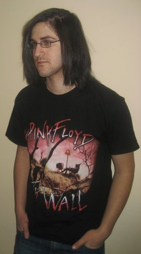 kidwith curly hair straightens his hair so its straight